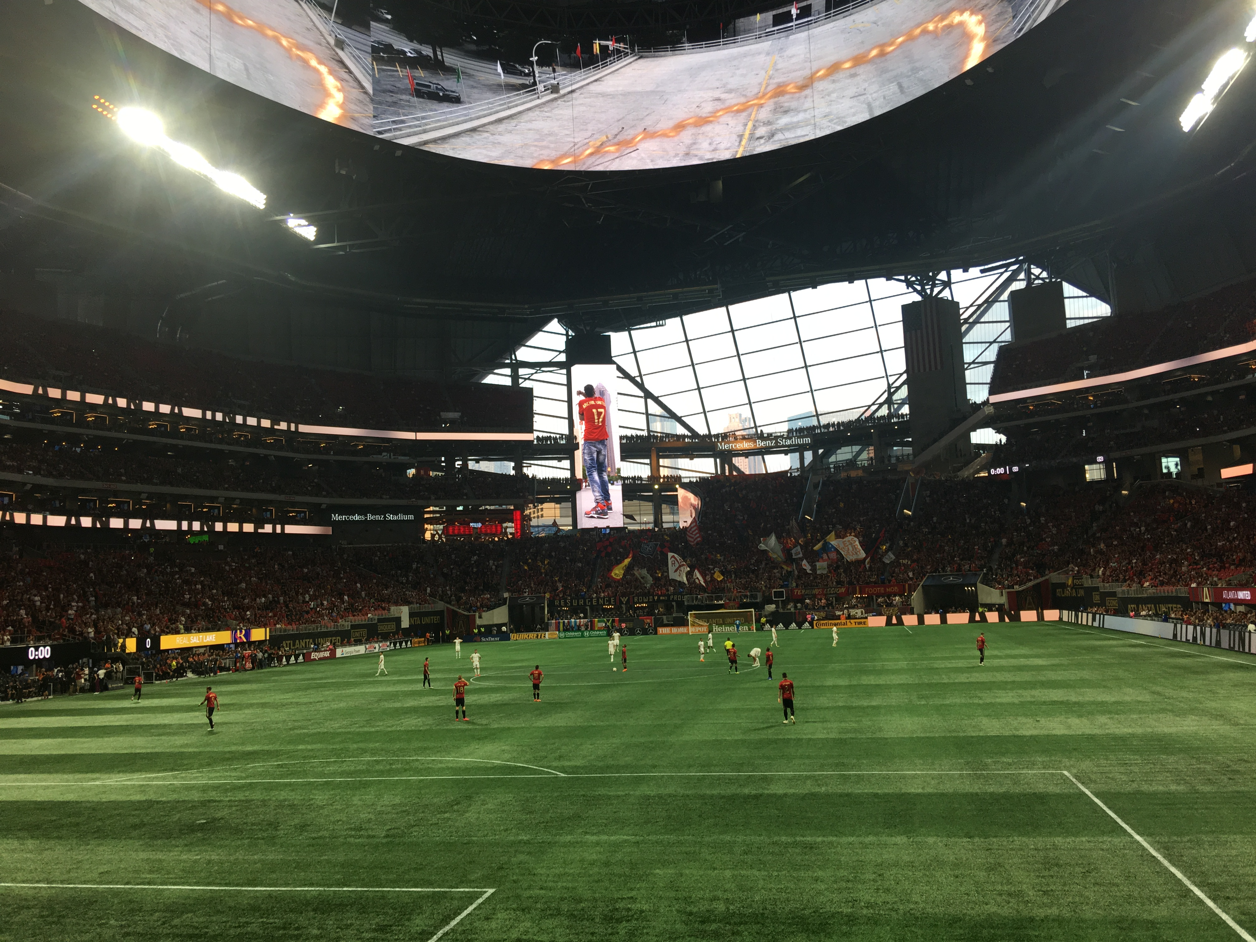 2018-09-22 - Atlanta United vs Real Salt Lake